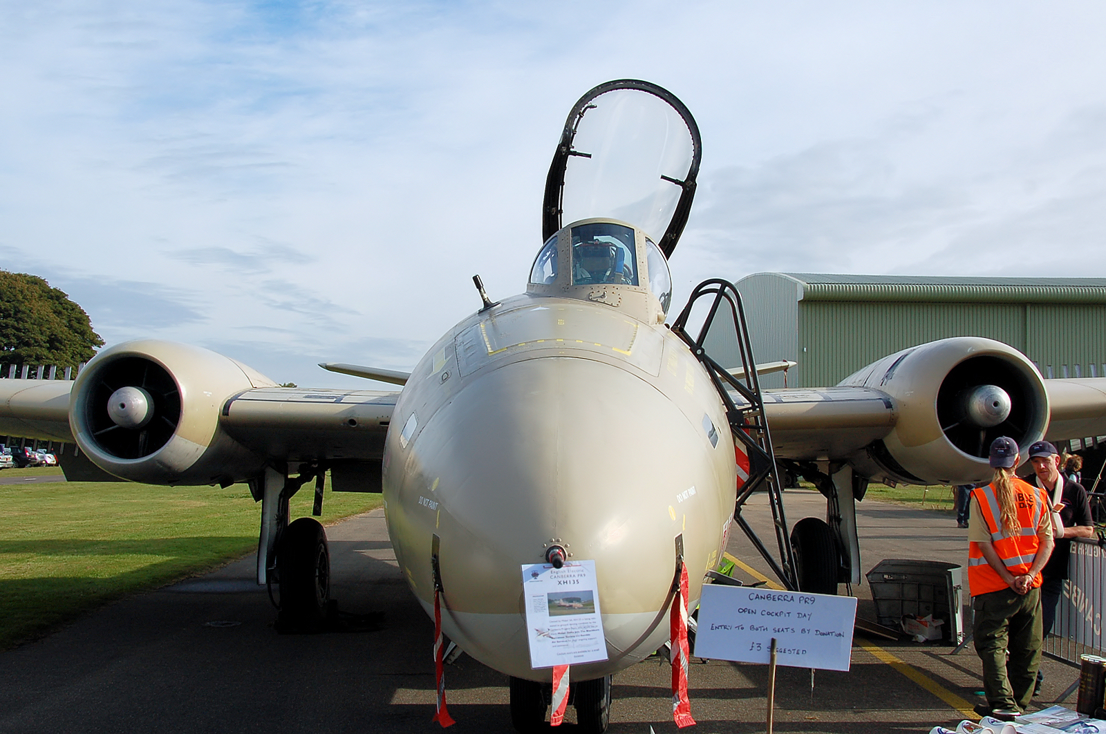 Preserved photo-reconnaissance Canberra PR.9 (RAF serial XH135) on show at Kemble Battle of Britain Weekend, Cotswold Airport, Gloucestershire, England. Preserved at Kemble by the Canberra Projects Team. Built 1959, taken out of RAF service 2006 (as were all Canberras).